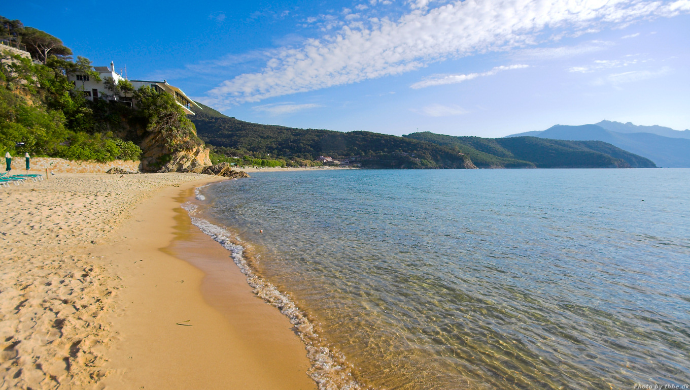 The island of Elba off Tuscany, in Italy